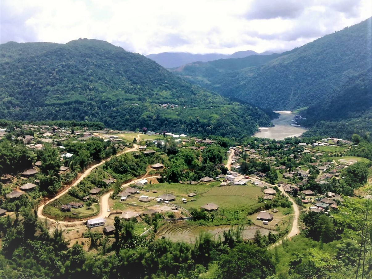 This photo has been taken in the country: India